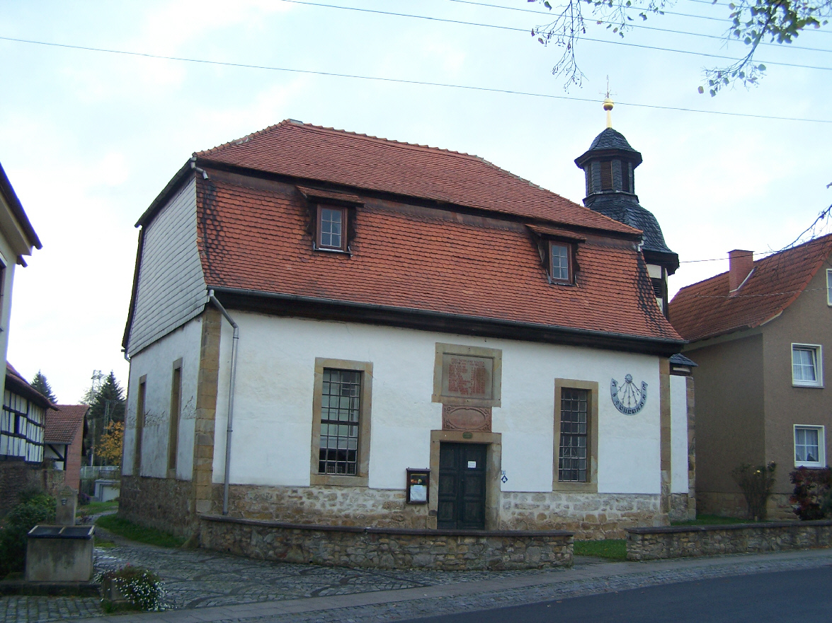 The church in Spichra village.